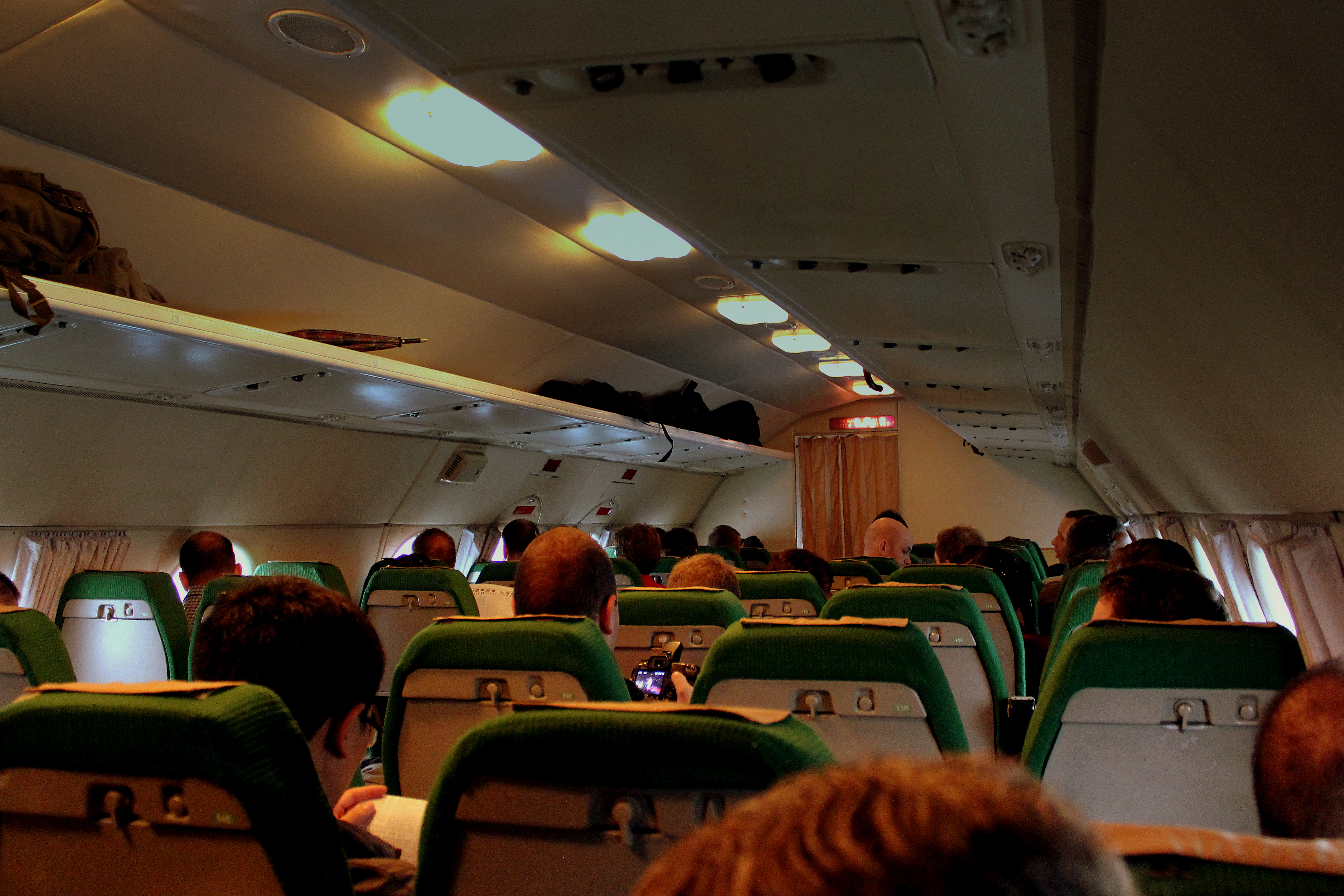 AIR KORYO IL18 FLIGHT JS5205 P835 FROM PYONGYANG SUNAN TO ORANG MOUNT CHILBO DPR KOREA OCT 2012